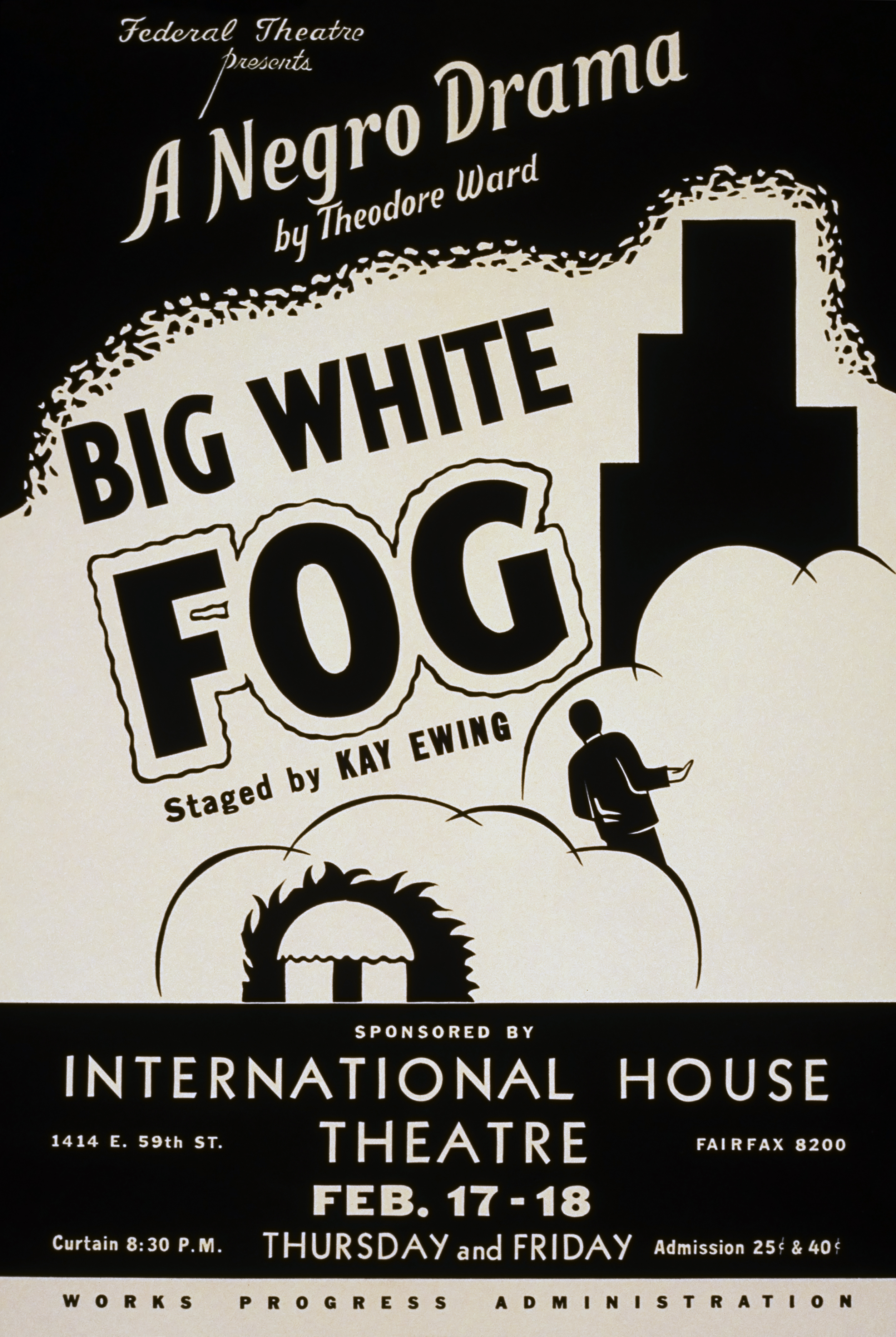 Theatrical poster for Big White Fog, a 1938 play by Theodore Ward.